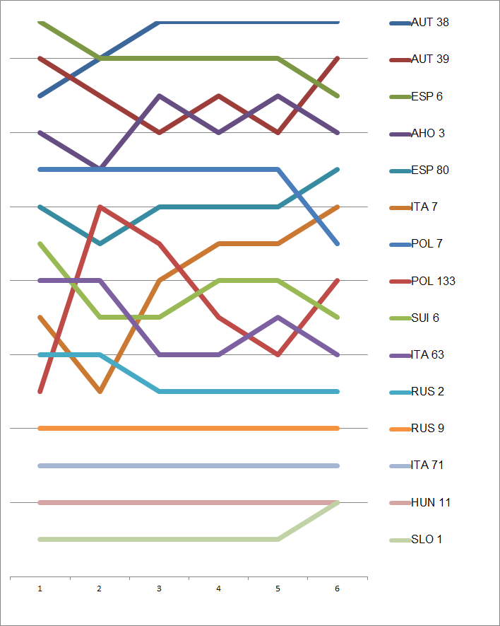 Flying Dutchman Positions during the 2012 Vintage